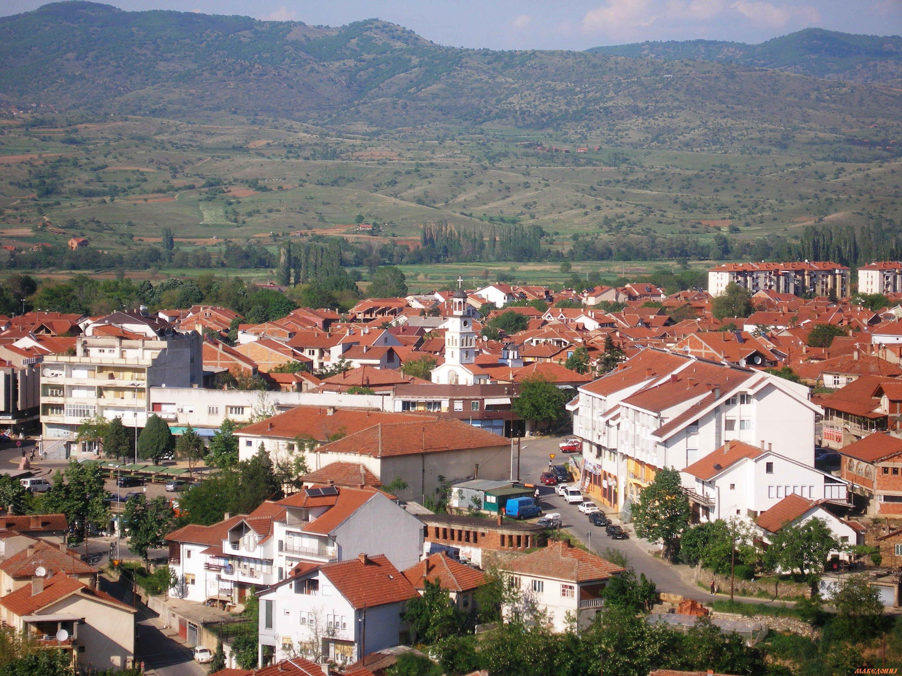 View from Vinica fortress Kale, to old city center, Staro maalo.